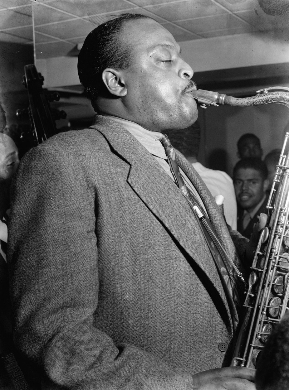 Gottlieb, William P., 1917-, photographer. [Portrait of Ben Webster, Famous Door, New York, N.Y., ca. Oct. 1947] 1 negative : b&w ; 3 1/4 x 4 1/4 in. Notes: Gottlieb Collection Assignment No. 390 Reference print available in Music Division, Library of Congress. Purchase William P. Gottlieb Forms part of: William P. Gottlieb Collection (Library of Congress). Subjects: Webster, Ben B Jazz musicians--1940-1950. Saxophonists--1940-1950. Fifty-second Street (New York, N.Y.)--1940-1950. Famous Door Format: Portrait photographs--1940-1950. Film negatives--1940-1950. Rights Info: Mr. Gottlieb has dedicated these works to the public domain, but rights of privacy and publicity may apply. Repository: (negative) Library of Congress, Prints & Photographs Division, Washington D.C. 20540 USA, (reference print) Library of Congress, Music Division, Washington D.C. 20540 USA, Part Of: William P. Gottlieb Collection (DLC) 99-401005 General information about the Gottlieb Collection is available at Persistent URL: Call Number: LC-GLB13- 0893 This work is from the William P. Gottlieb collection at the Library of Congress. Rights and restrictions.In accordance with the wishes of William Gottlieb, the photographs in this collection entered into the public domain on February 16, 2010.